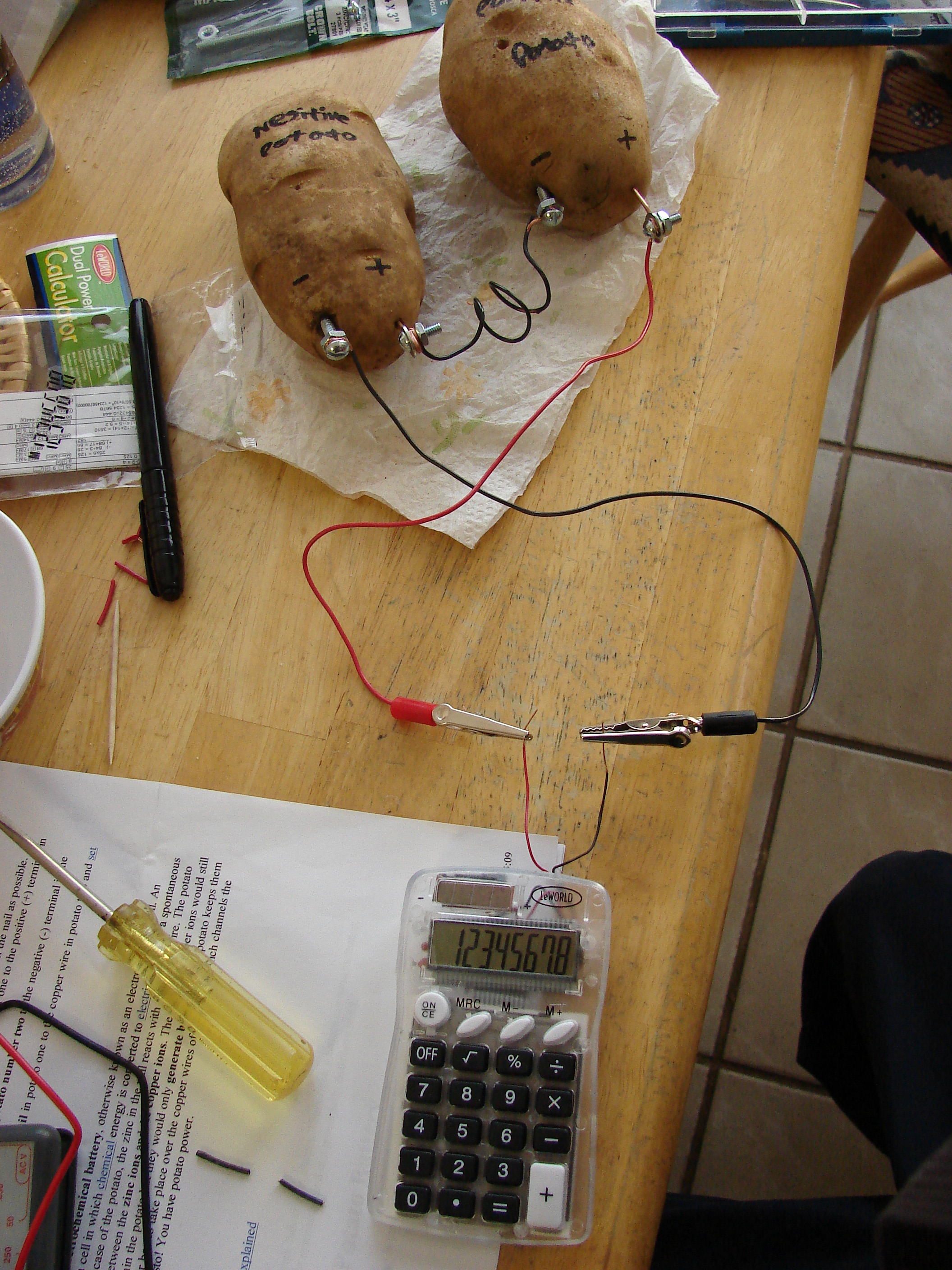 Potato battery, a science fair experiment, utilizing two potatoes to power a small electronic calculator.